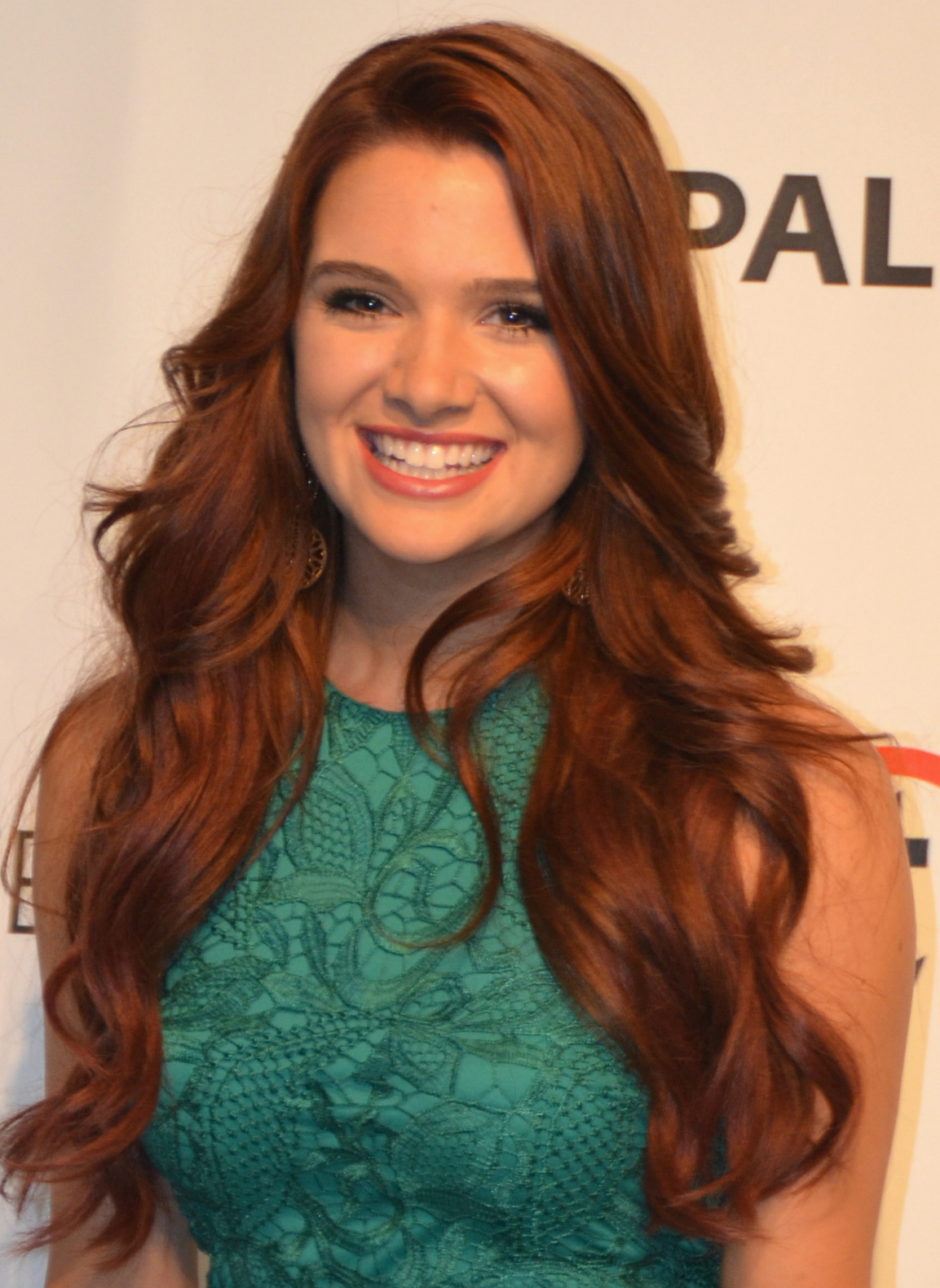 Actress Katie Stevens at MTV's "Faking It" event at PaleyFest Fall TV Preview